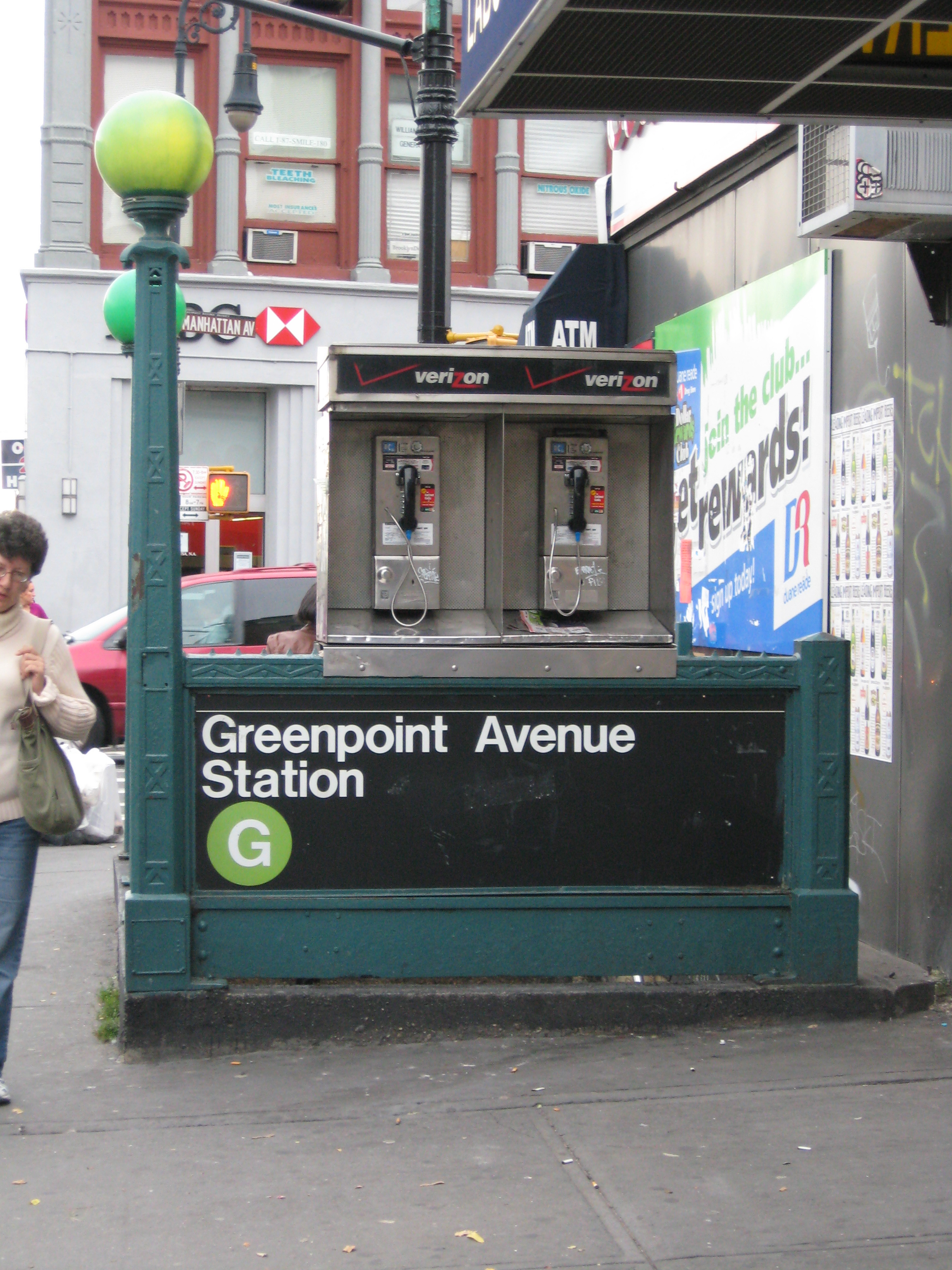 Greenpoint Ave G station. Taken on the southwest corner of Manhattan Ave and Greenpoint Ave.